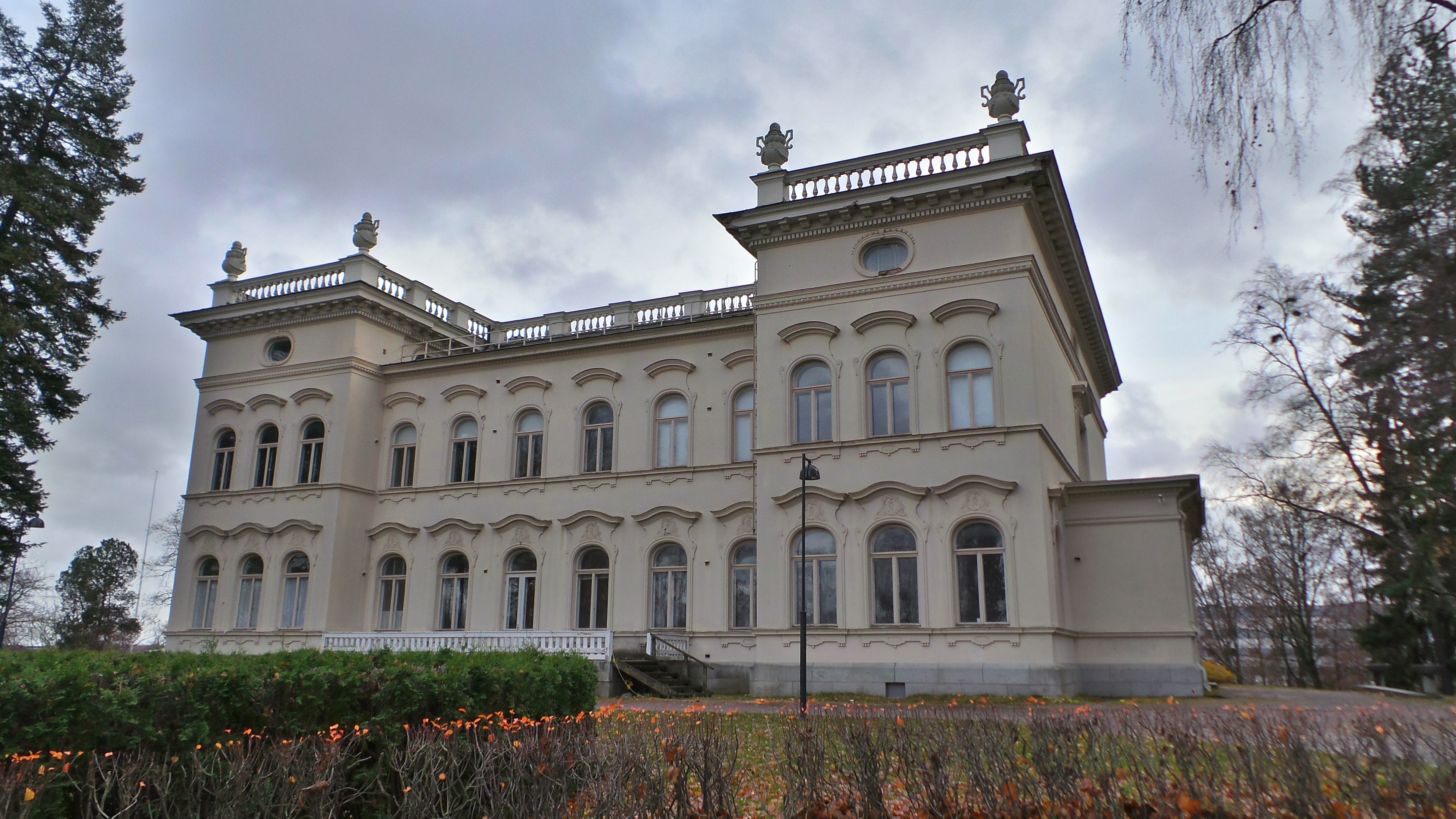 Hämeen museo